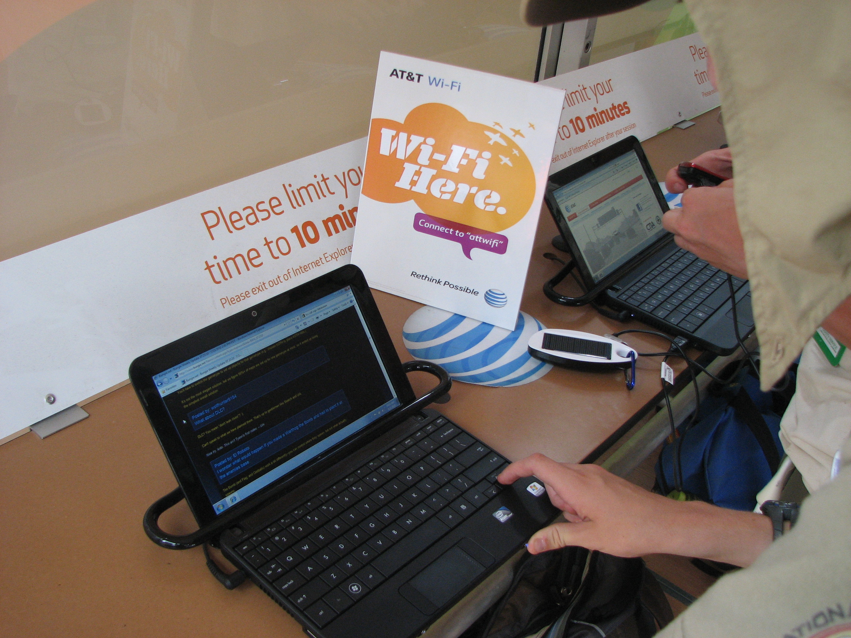 A netbook in the southern Thomas Road AT&T connection center at the 2010 National Scout Jamboree.